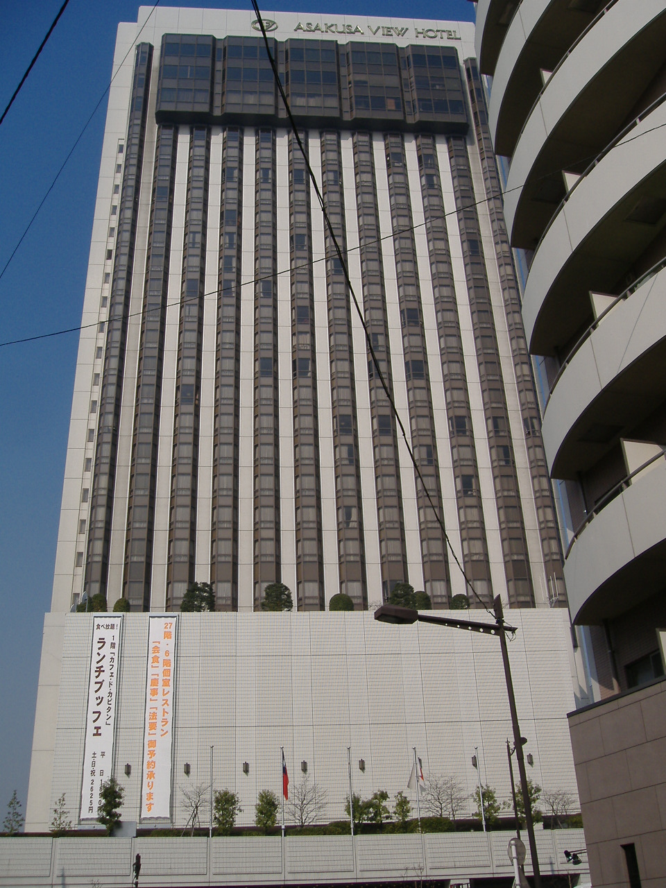 Asakusa ViewHotel (Tokyo, Japan)